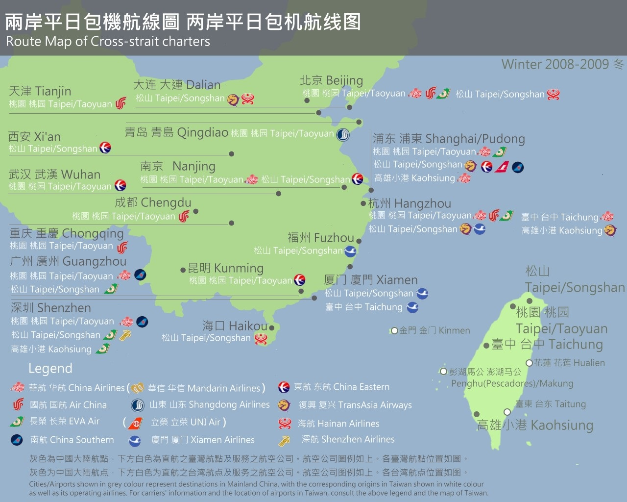 Route Map of Cross-strait Daily Charters starting Dec. 15 between Taiwan and Chinese Mainland.